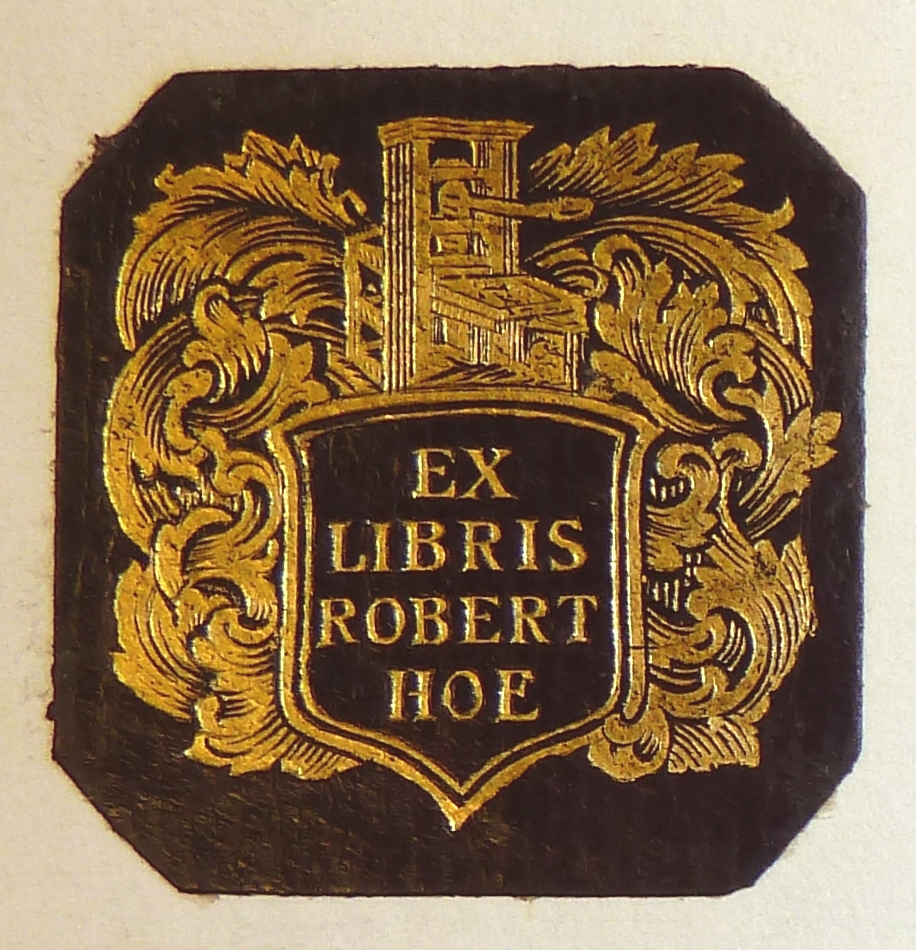 Bookplate of Robert Hoe Established heading: [ Hoe, Robert